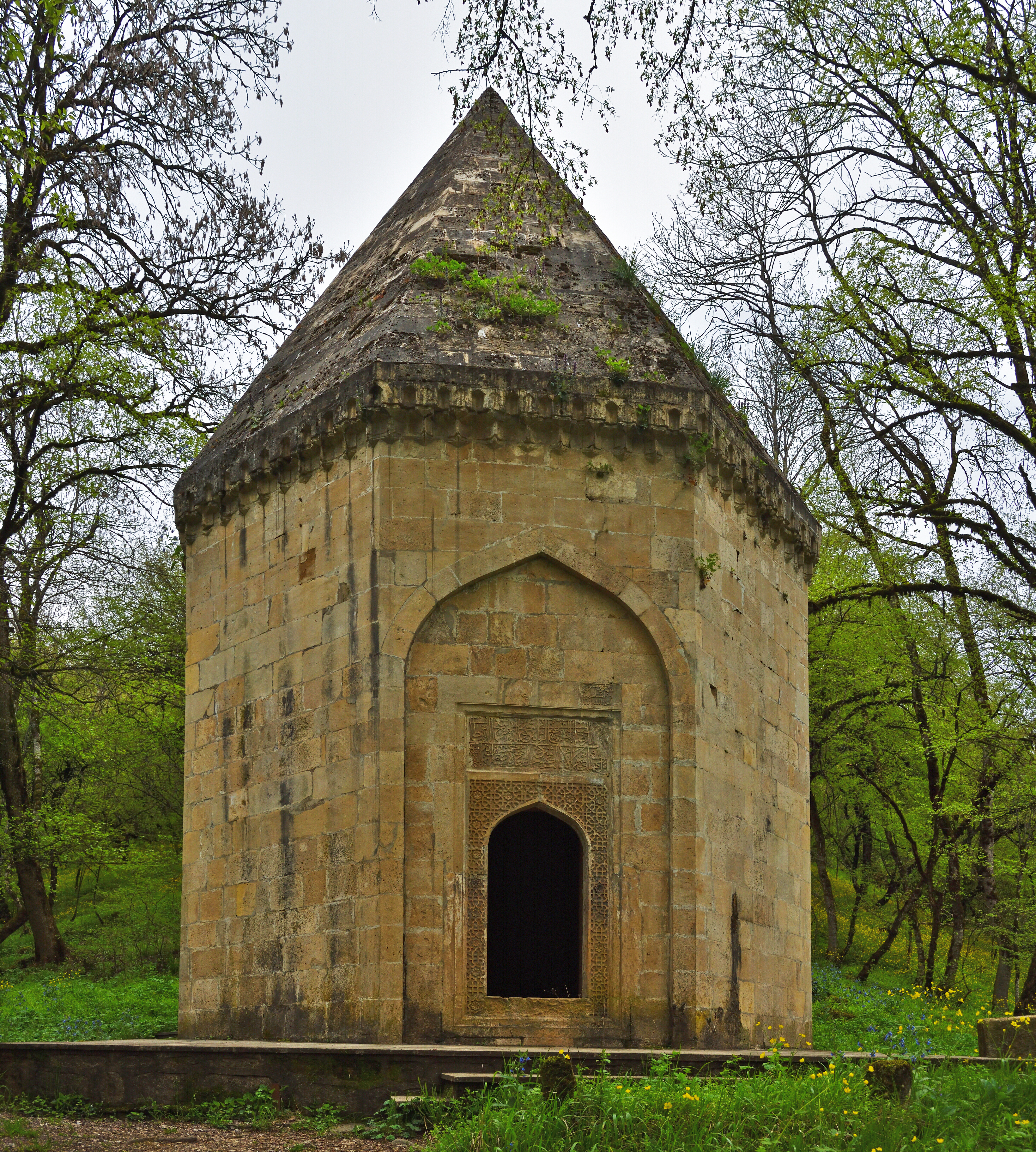 Sheikh Badraddin Tomb, 1446, Hazra village, Qabala district, Azerbaijan